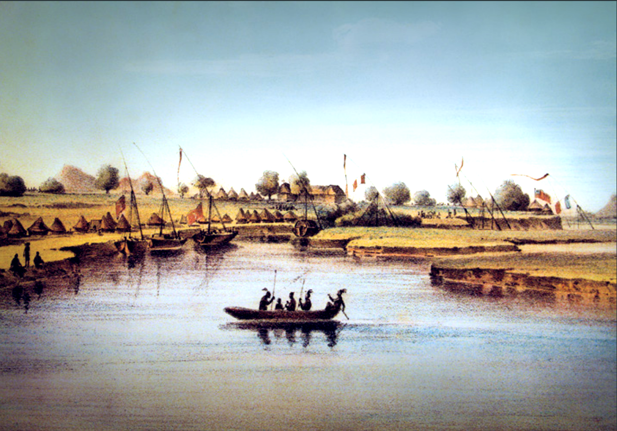 Mission Station of Gondokoro (South Sudan) with Mother of God Church